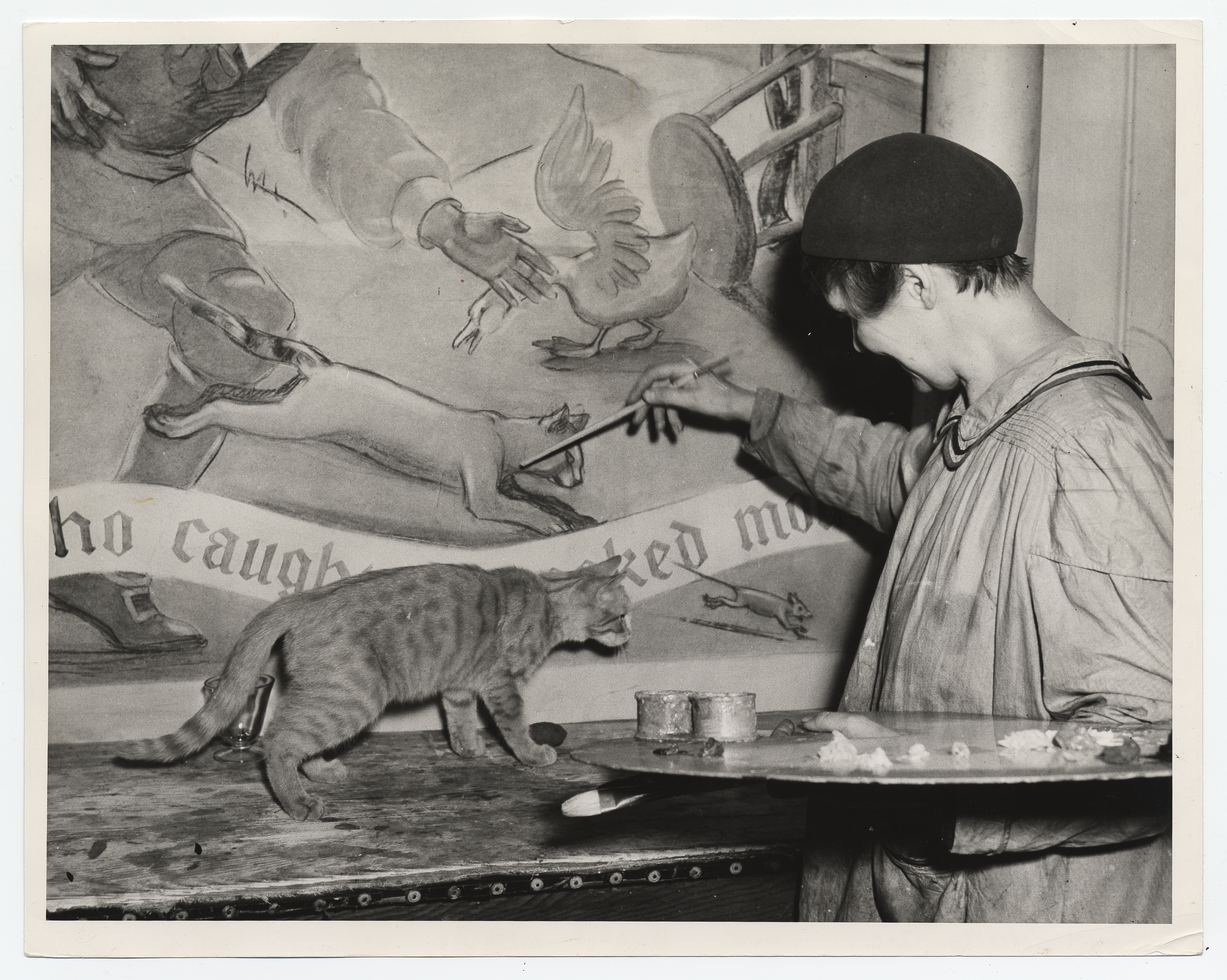 Identification on verso right (handwritten and stamped): Federal Art Project W.P.A., Photographic Division, 235 East 42nd Street, New York City Location: Fordham Hospital Date: 10/6/37 Negative No.: 2533-4 Photographer: Herman Identification on verso left (handwritten and stamped): Title: "Animal Tales" Artist: Emily Barto Medium: Oil on Canvas Barto at work on a mural, a cat on a table in front of her.